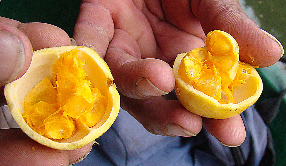 The seed coatings of Guayabo de Mono fruit are eaten by humans as well as monkeys. Photo from Indio Maiz Reserve, southeastern Nicaragua. In context at